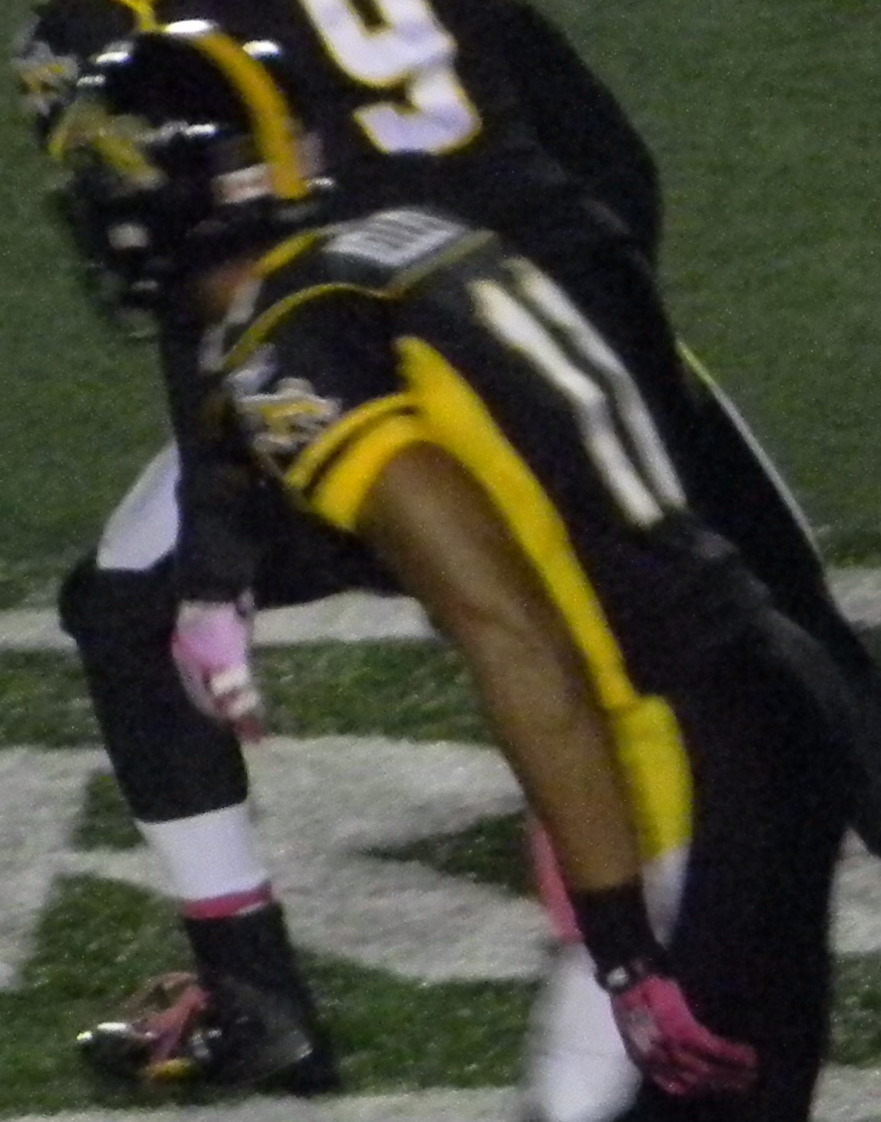 Hamilton Tiger-Cats against BC Lions on a game in Hamilton, #42Brandon Denson, #11Jeremy Kelley and #9Renauld Williams